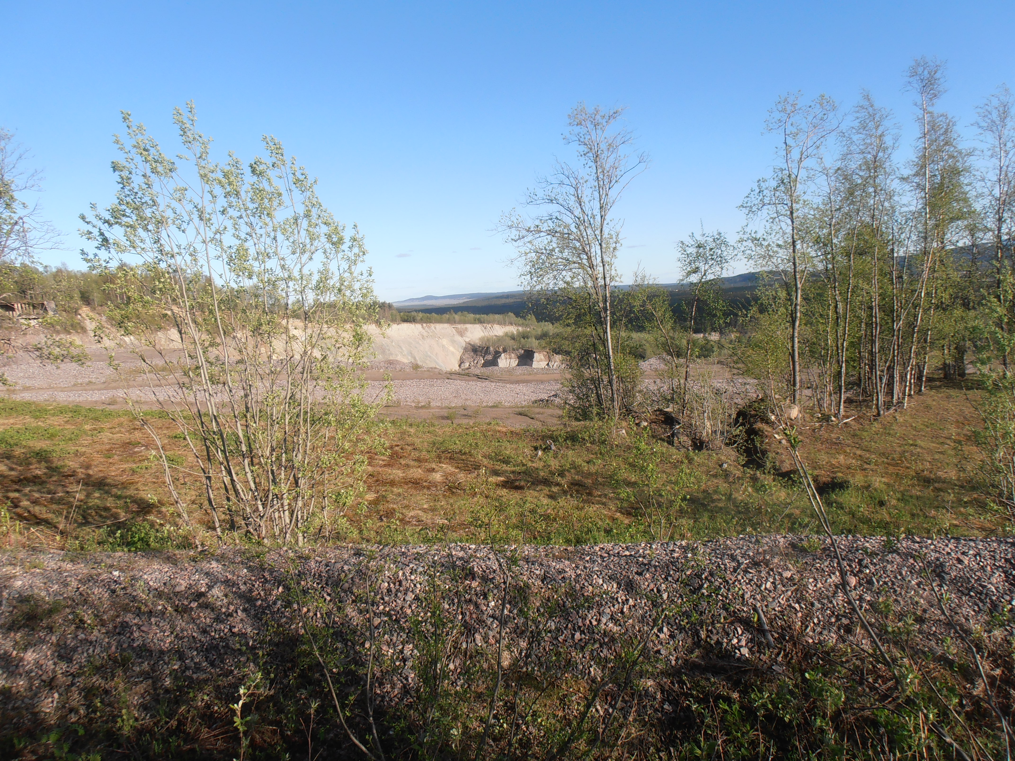 The Captain's Pit, seen from Kaptensbacken, in Malmberget